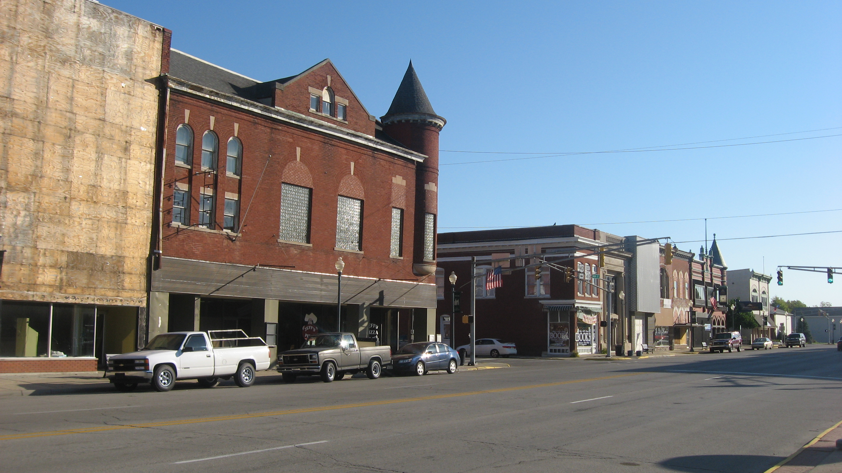 Buildings on the northern side of Main Street (U.S. Route 40) on both sides of its Jefferson Street intersection in Knightstown, Indiana, United States. This block is part of the Knightstown Historic District, a historic district that is listed on the National Register of Historic Places. From left to right (excluding the covered-over building on the left side), they were built in 1901, 1900, 1910, unknown, 1885, 1885, 1865, and 1880 respectively.